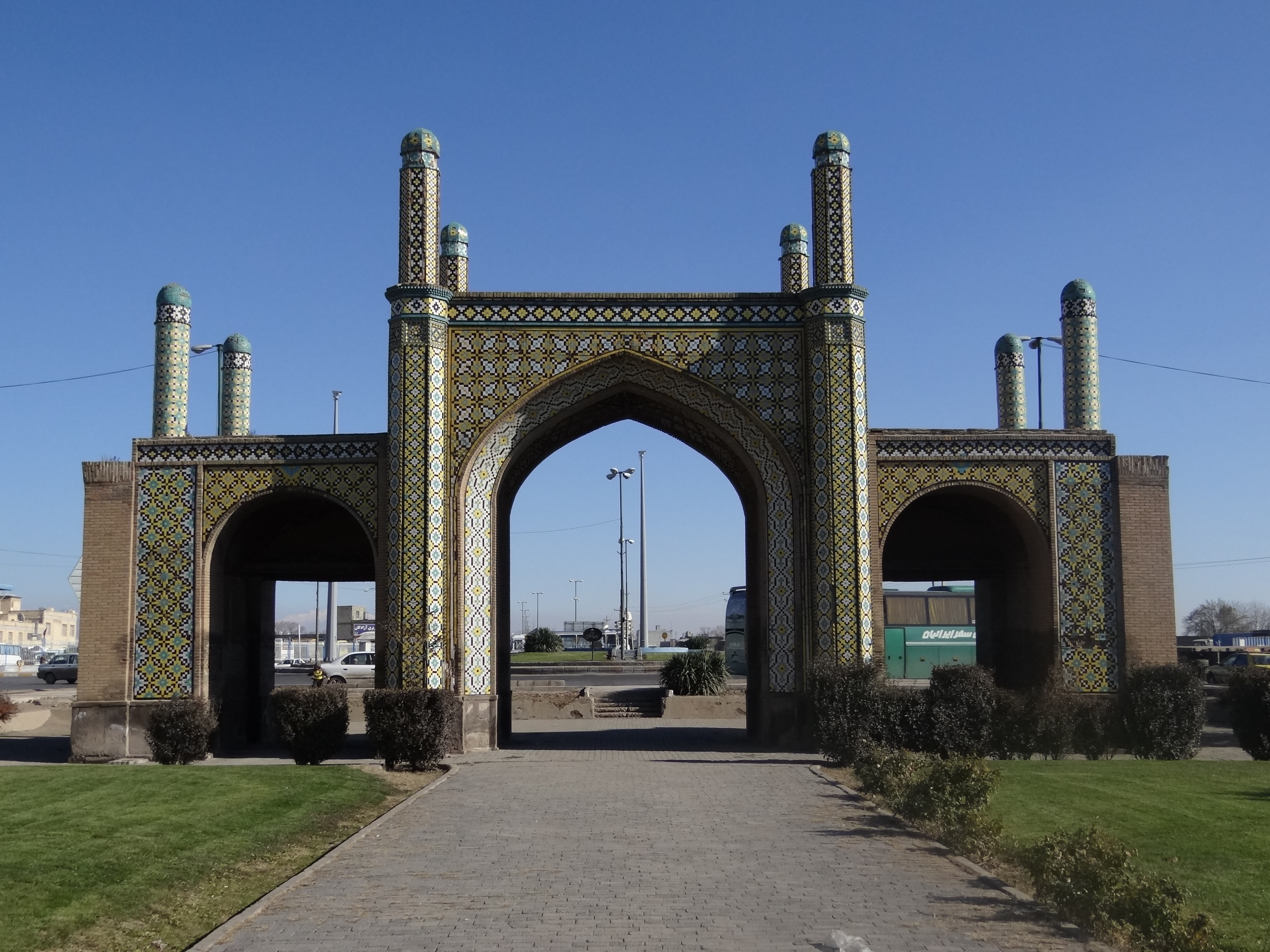 Tehran Ghadim gate, District 1, Qazvin, Iran